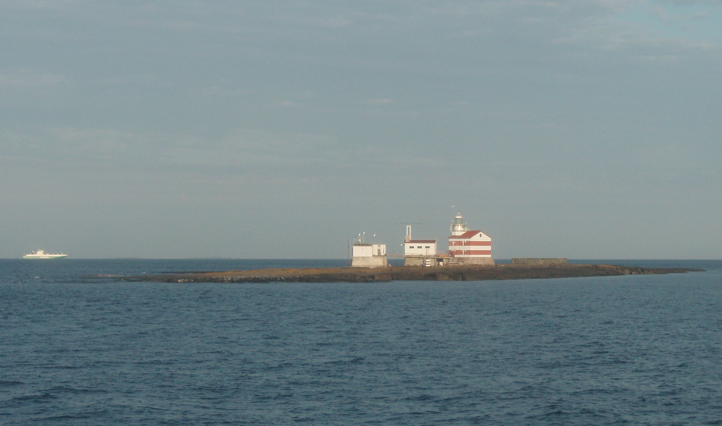 Märket approaching from east